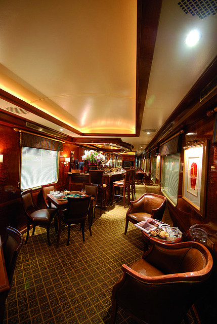 One of two lounge areas of the Blue Train